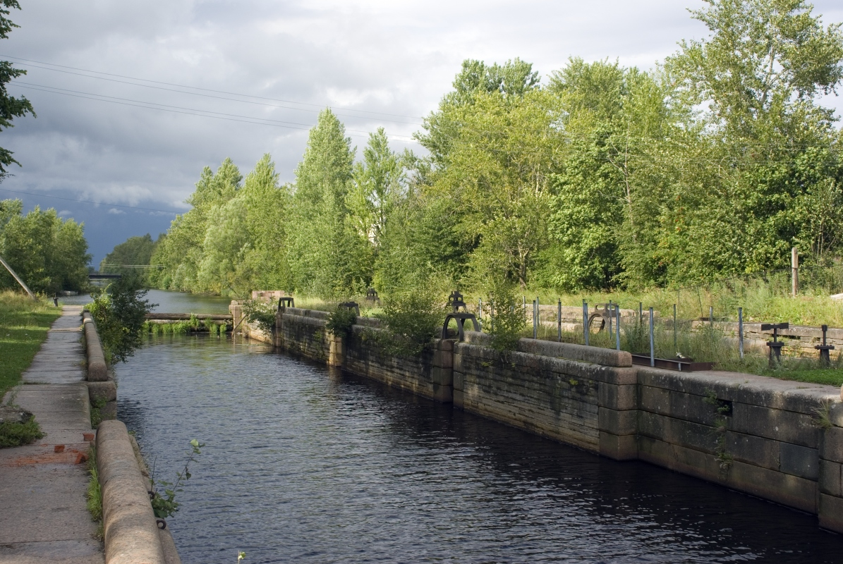 Shipping lock of Old Ladoga channel in New Ladoga town